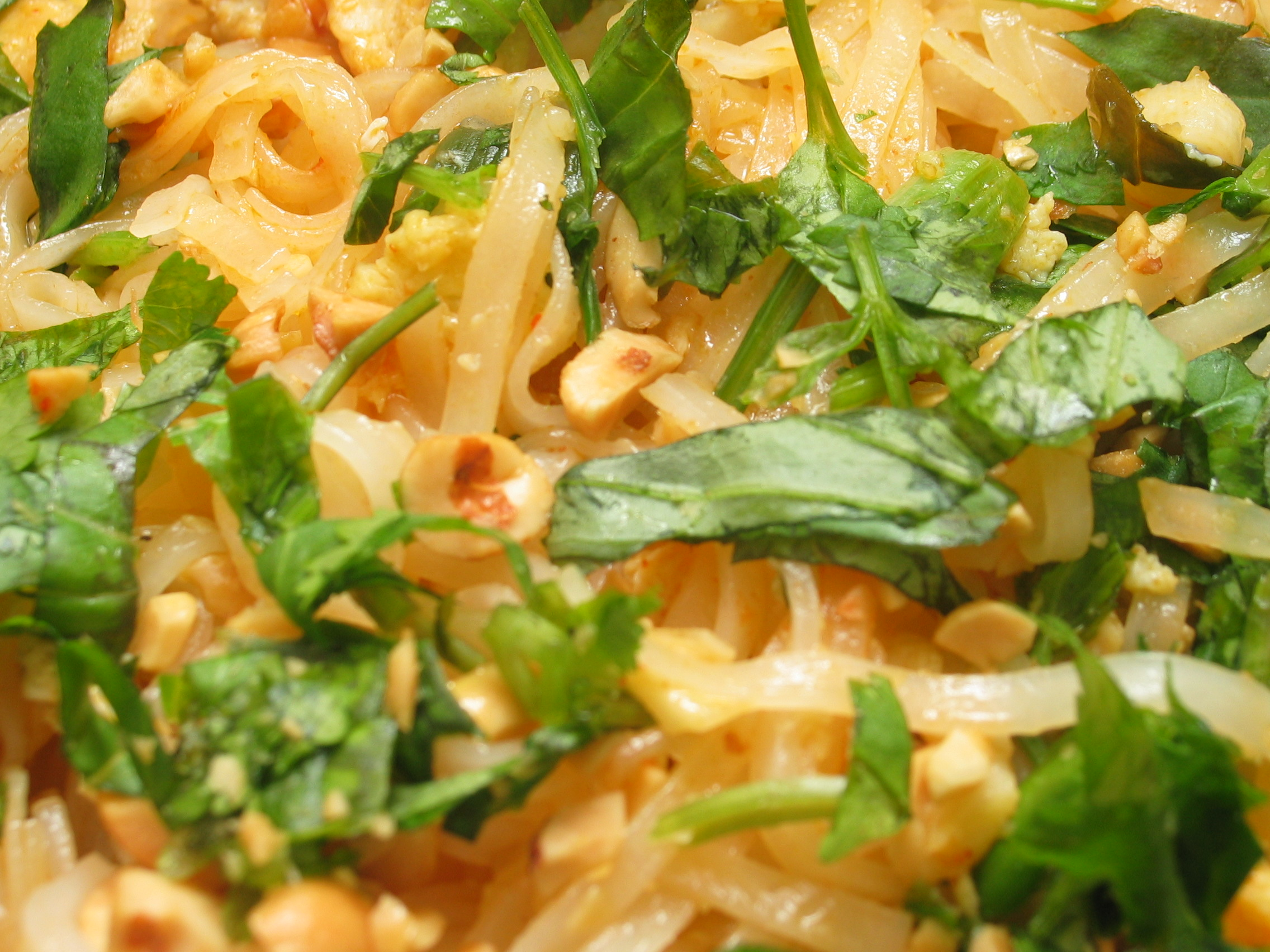 Pad Thai